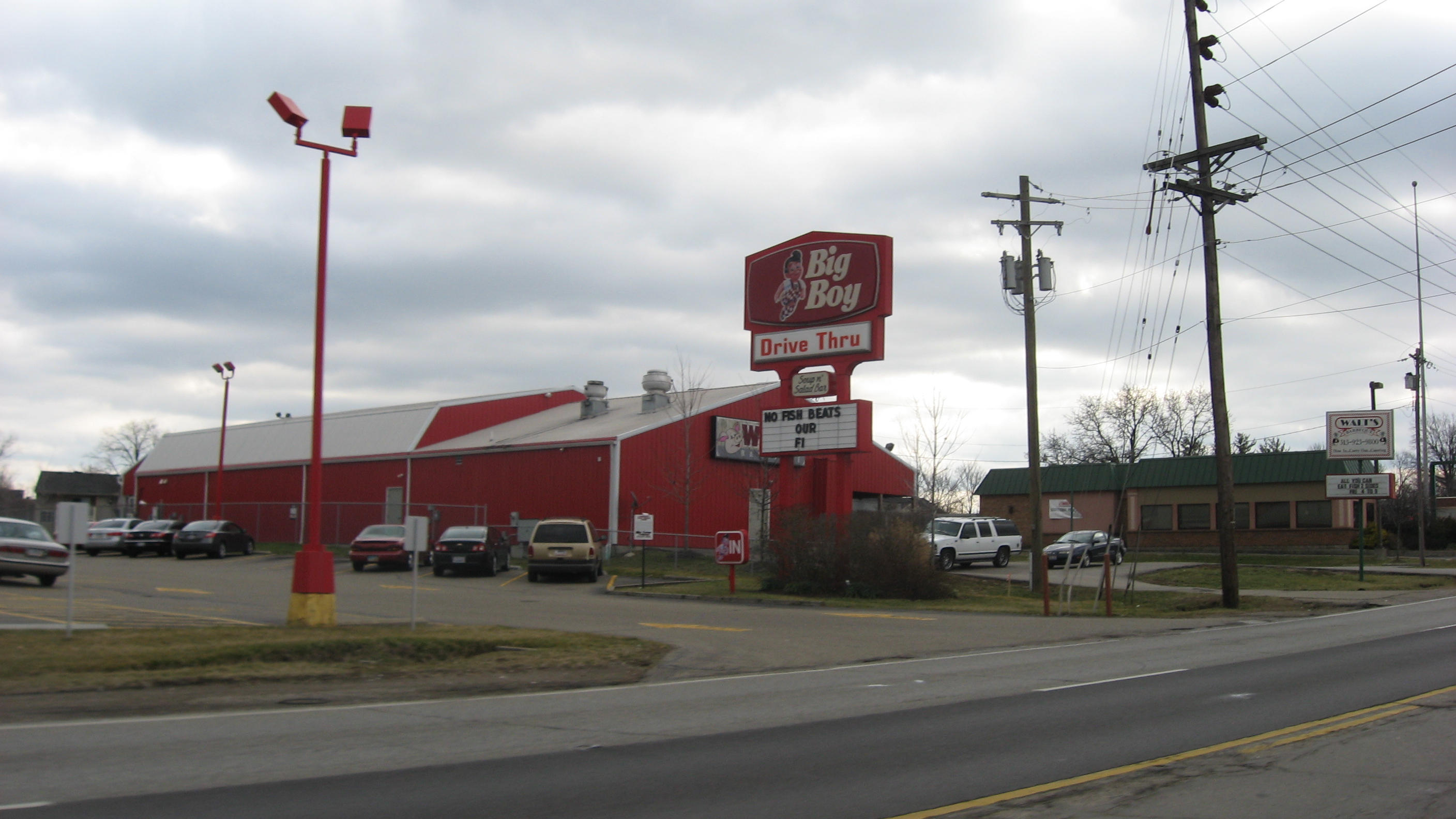 Restaurants along Colerain Avenue (U.S. Route 27) in the vicinity of White Oak East in Colerain Township, Hamilton County, Ohio, United States. The restaurants have replaced the two Old Gothic Barns; built in 1840, they were listed on the National Register of Historic Places in 1976; they have been destroyed, but the historic designation has not yet been withdrawn.